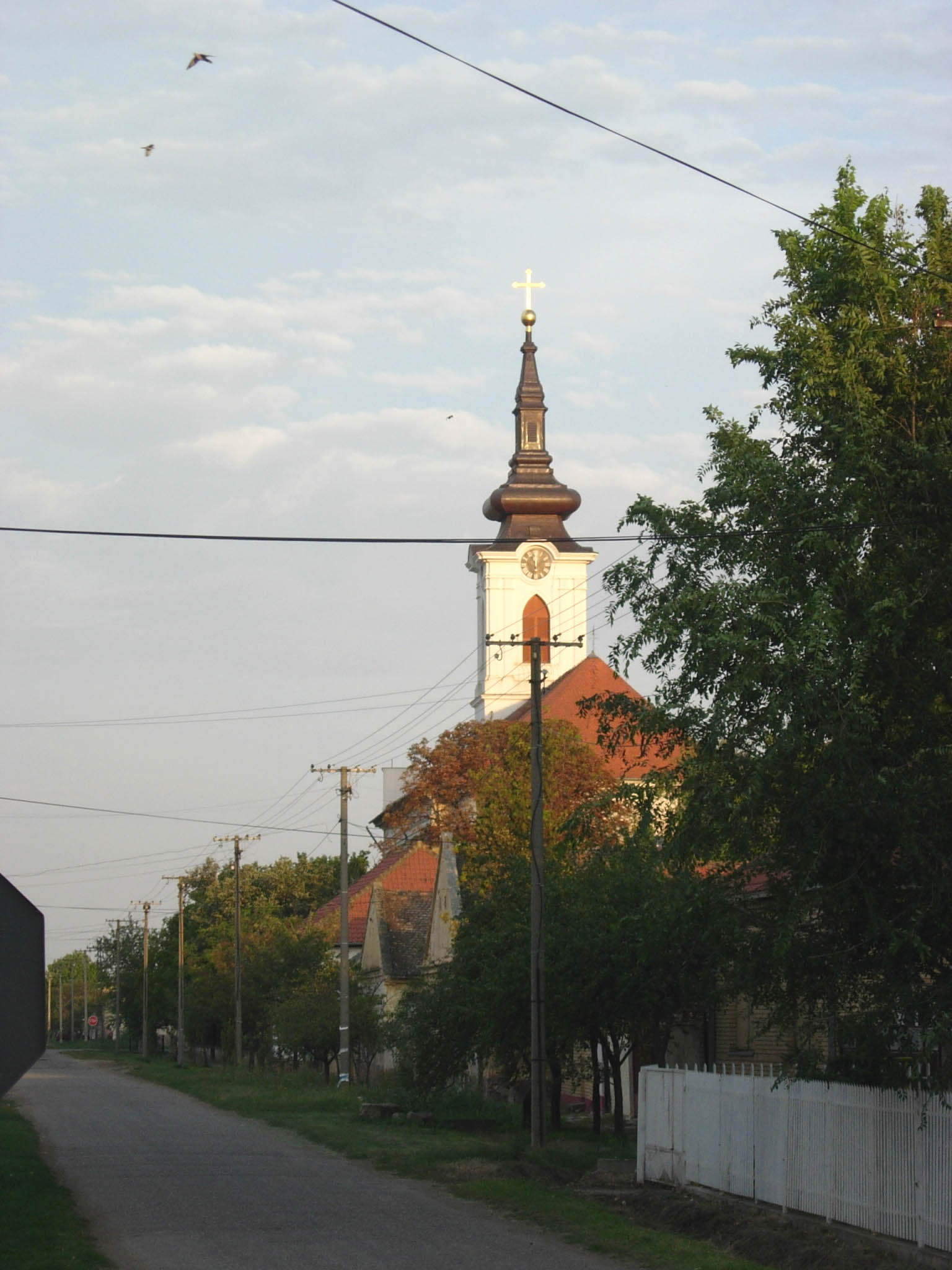 The Orthodox church in Novo Miloševo.